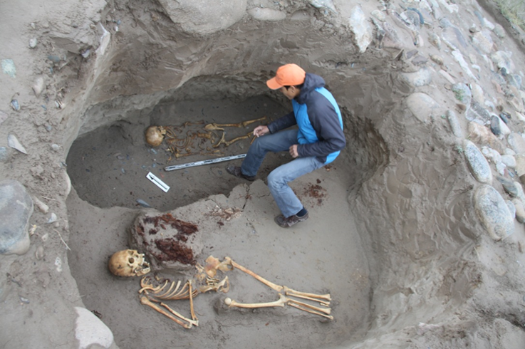 AUCA press